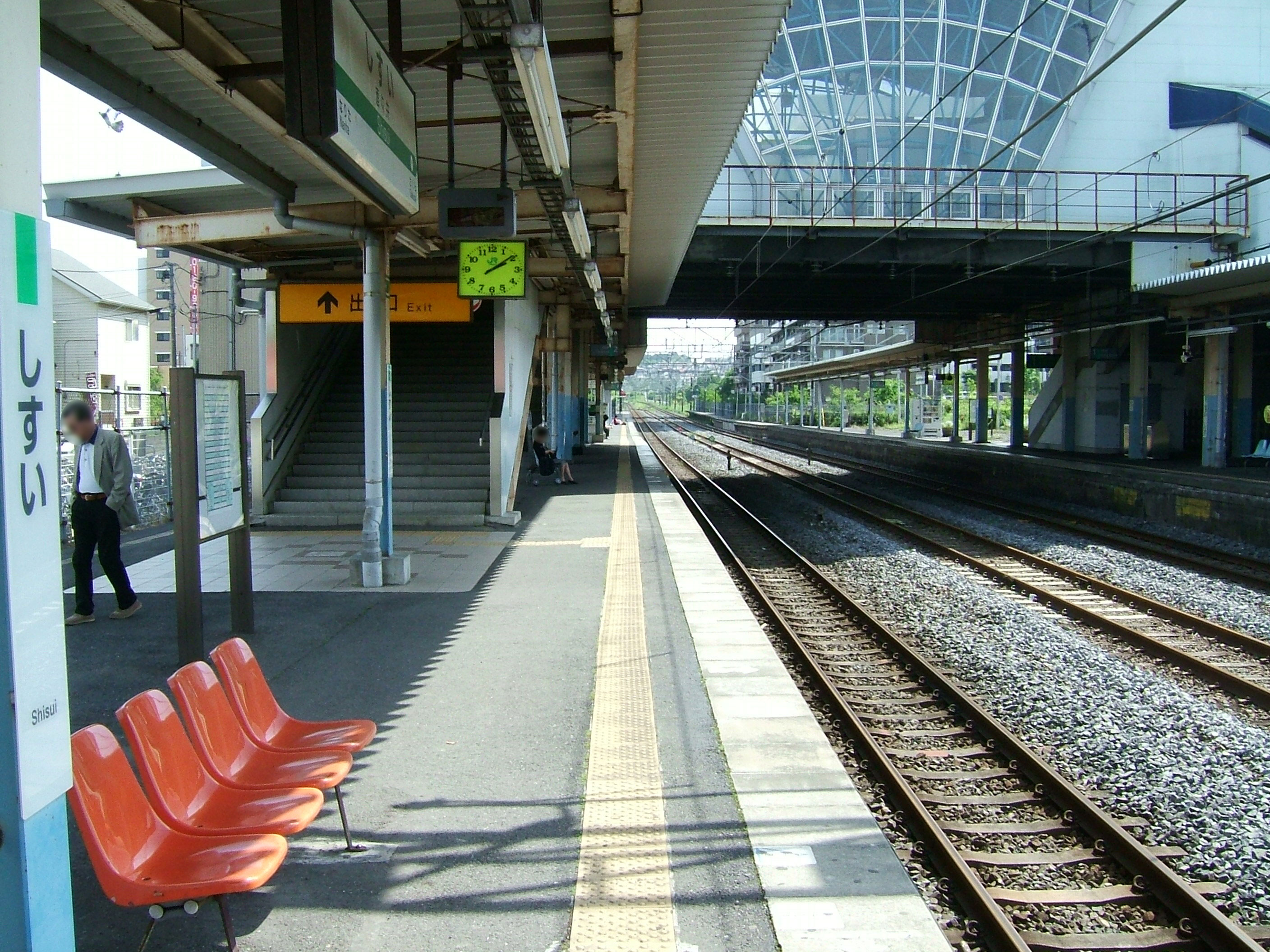 Shisui Station platform (East Japan Railway Narita Line)